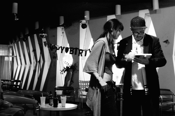 Signing an autograph